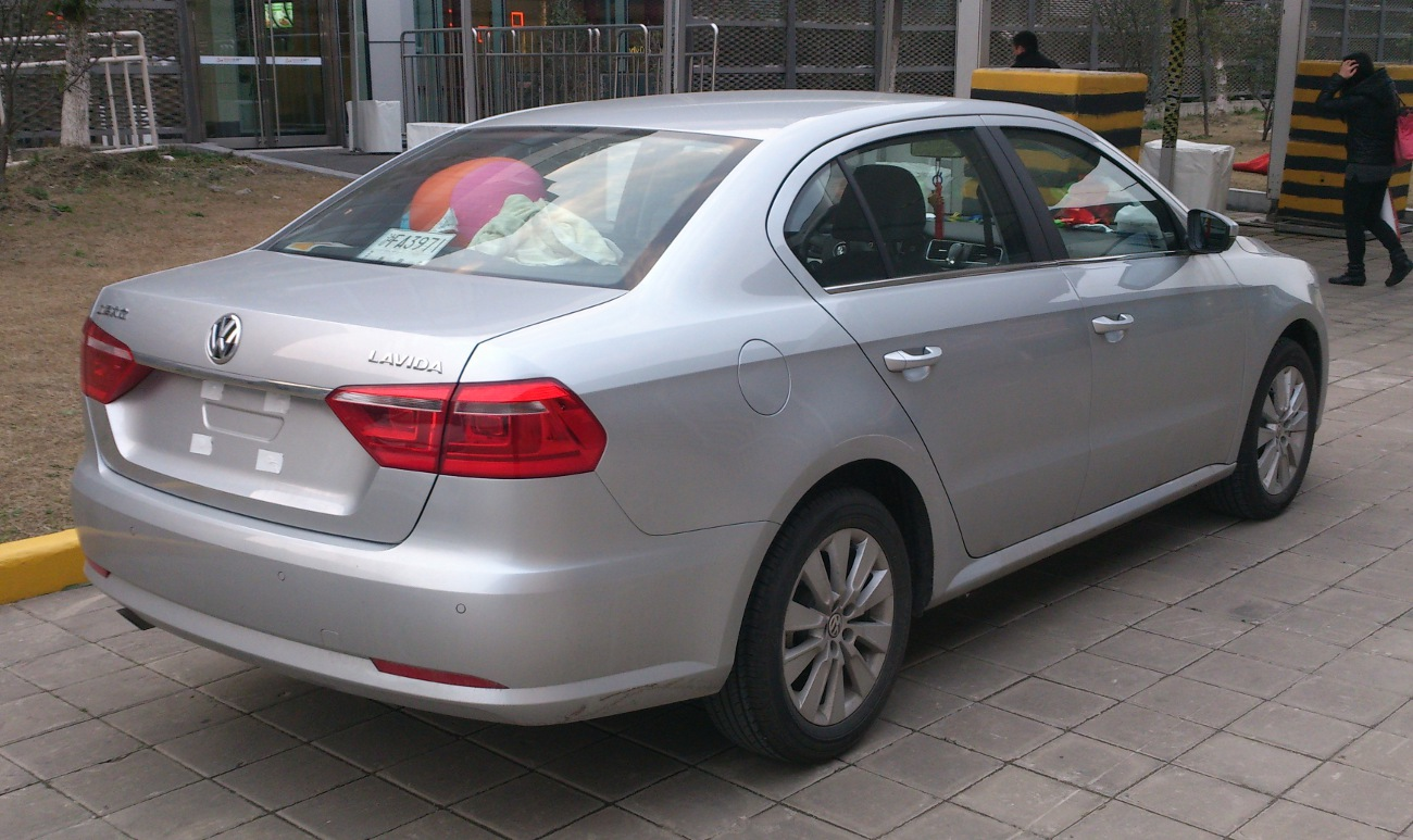 Volkswagen Lavida II photographed in Shanghai, China.